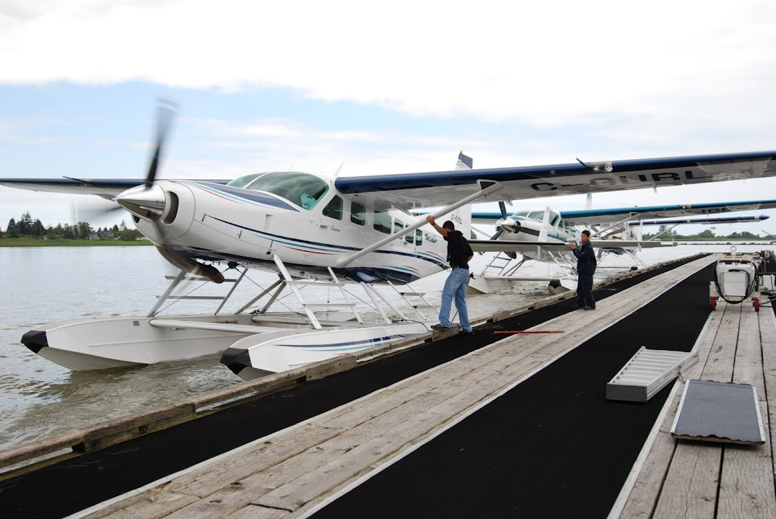 Seair Seaplanes serves British Columbia's south coast with Canada's newest, quietest and most luxurious seaplanes available. Scheduled Flights - We operate up to 12 scheduled flights daily from Downtown Vancouver Harbour to Nanaimo (Departure Bay) and up to 12 scheduled flights daily from Richmond (YVR) to Nanaimo (Departure Bay), as well as up to 8 scheduled flights daily from Richmond (YVR) to 6 of the major Southern Gulf Islands. Charter Flights - We also specialize in seaplane charters in the Pacific Northwest including dropping off or picking up in the U.S.A. Experience world-class salmon and trout fishing, landing in secluded coves with white sand beaches or spending an afternoon on a secret lake north of Vancouver enjoying a gourmet picnic lunch. Our Fleet consists of 4 different types of aircraft - all of which are scrupulously maintained and piloted by experienced coastal pilots - Seair's friendly personnel are always available to offer you their knowledge and expertise in the floatplane industry. Our Terminals are located at Downtown Vancouver Harbour (NW corner of the Vancouver Trade and Convention Centre), Richmond (Vancouver Airport south side at Seair Seaplane Terminal) and in Nanaimo at Departure Bay (Seair Seaplane Terminal beside BC Ferries). Call or book online today. We're looking forward to flying with you soon! Seair Seaplanes Website